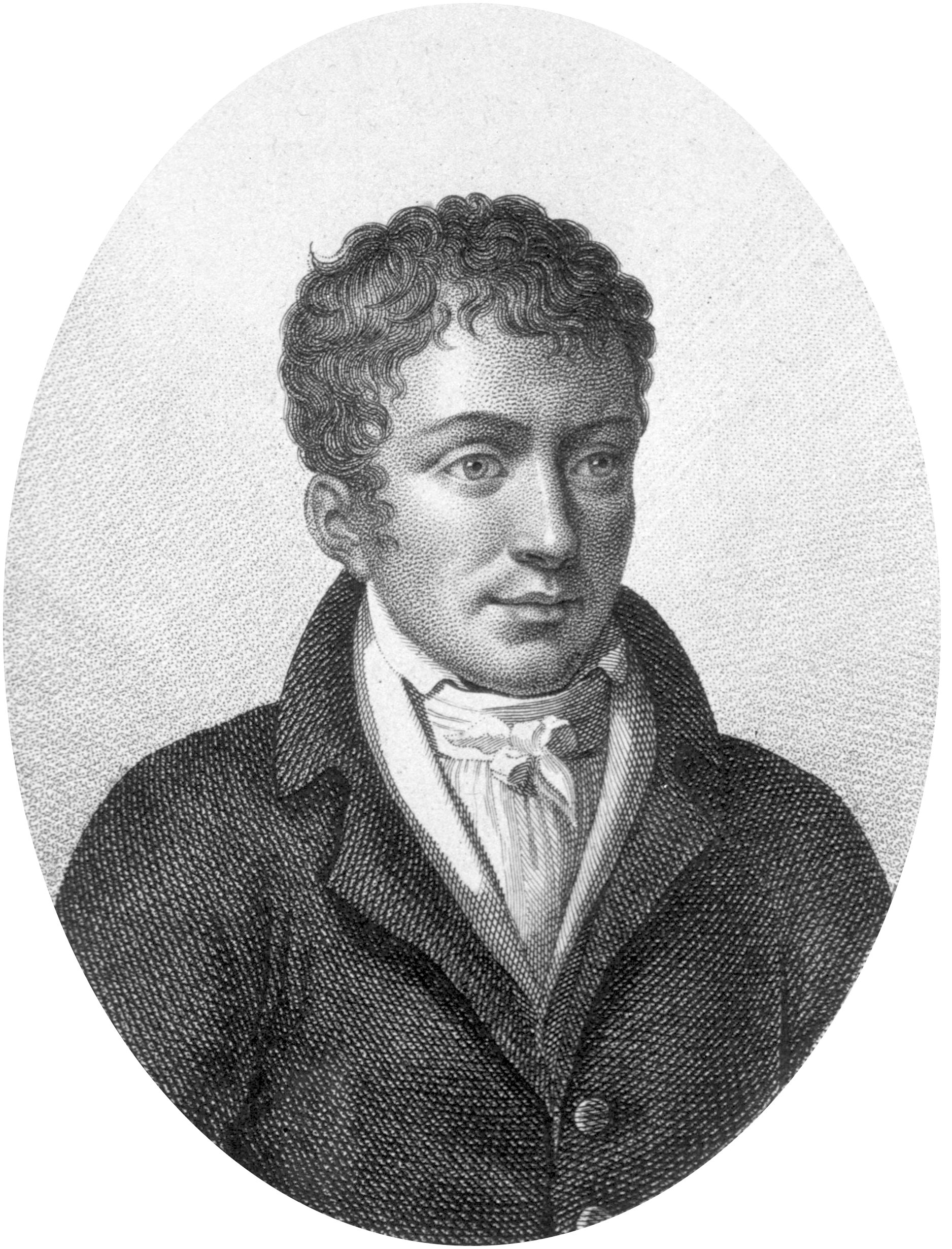 Pierre Jean George Cabanis (1757 -1808), French physiologist.